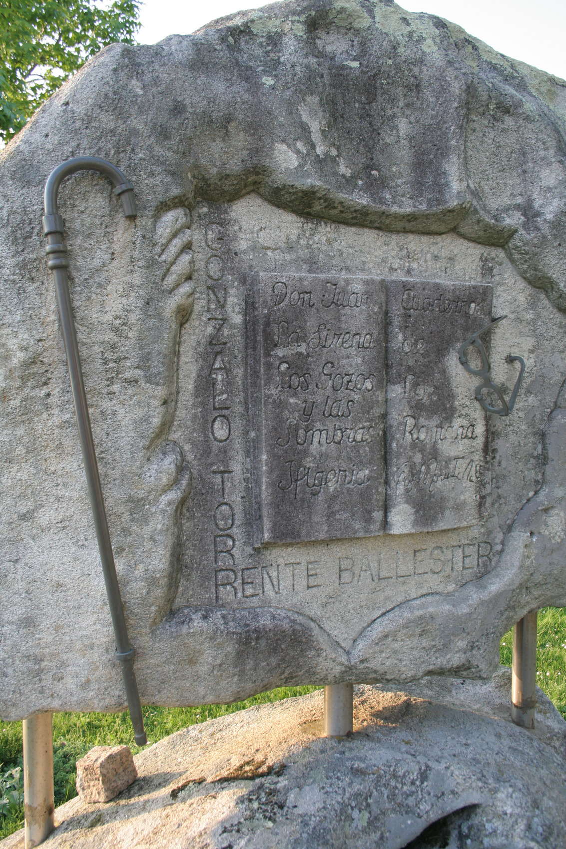 Monument to Gonzalo Torrente Ballester